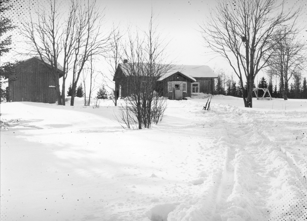 Photograph of the house of Tauno Pasanen where four policemen were shot in March 1969.